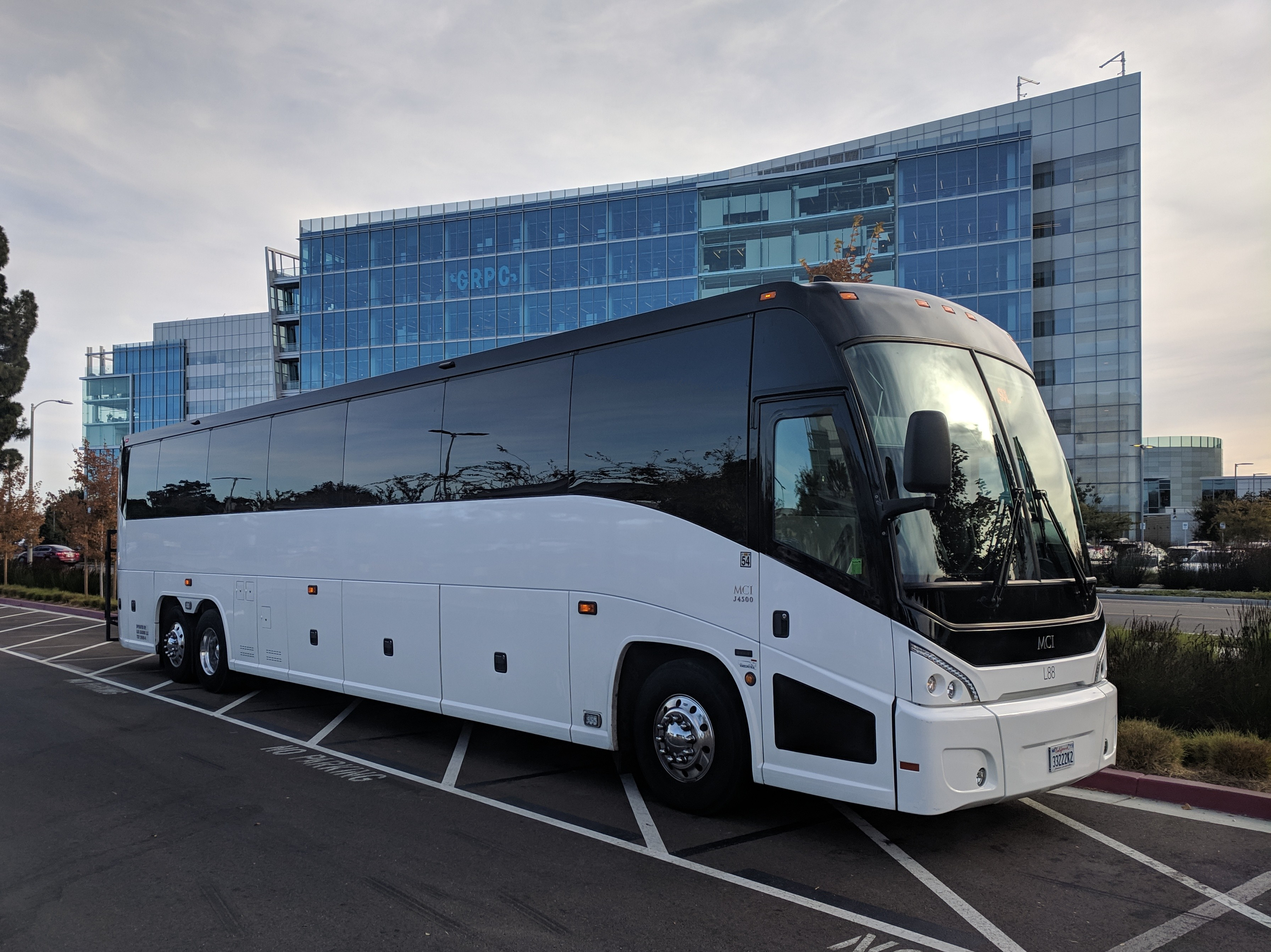 A private bus for Google employees, an MCI bus, at the company's Sunnyvale campus.